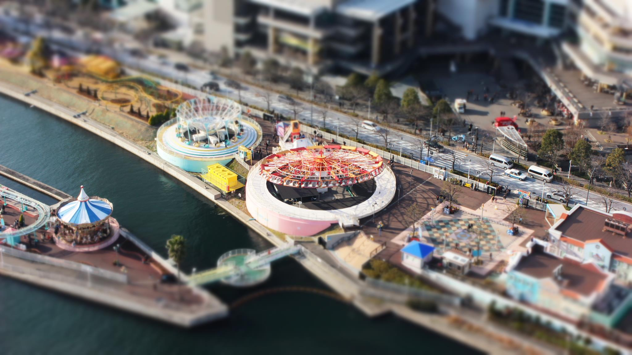 View of a portion of the cosmo world amusement park from the cosmo world's big wheel, Yokohama. Tilt-Shift Photo